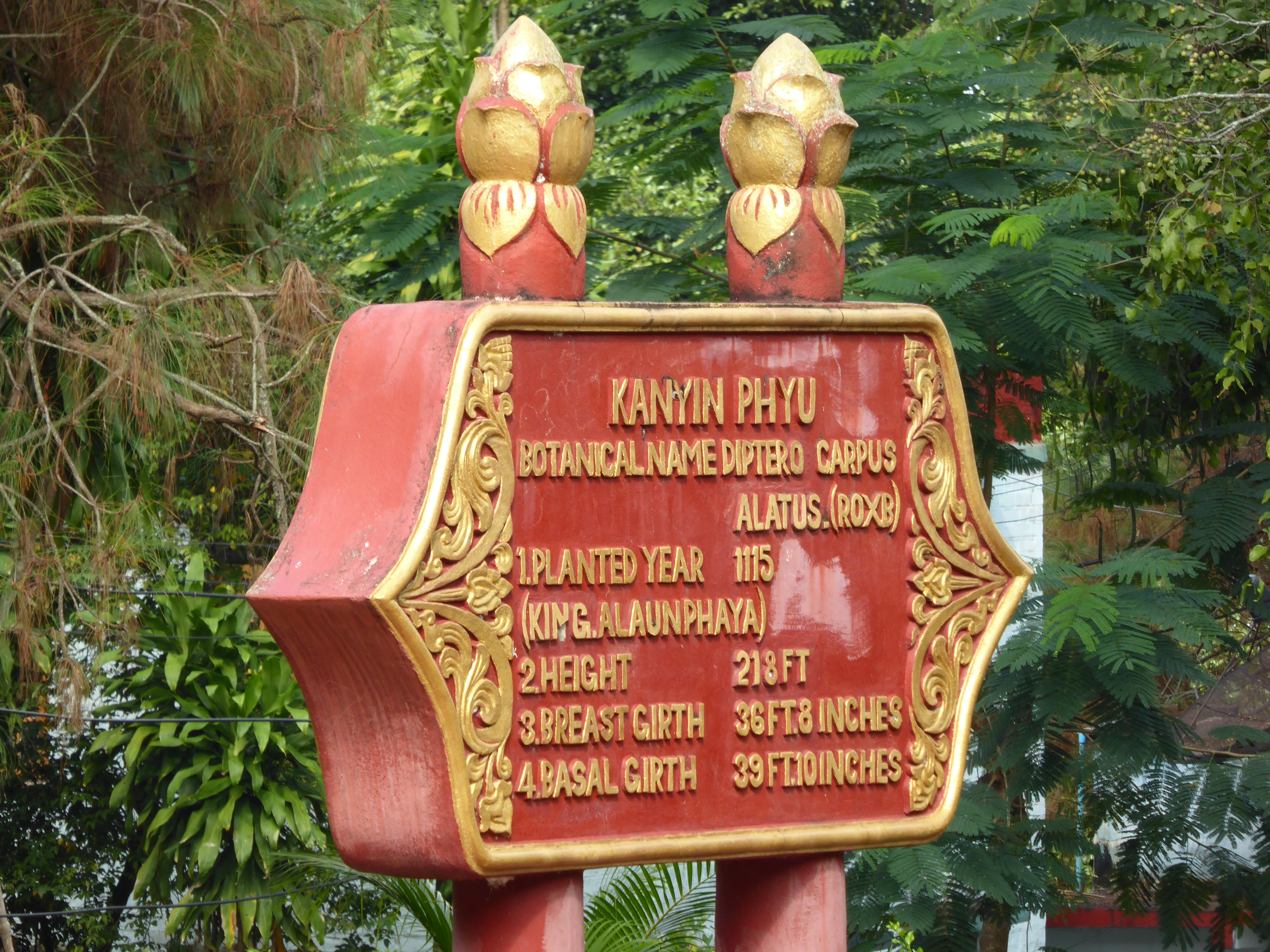 Descriptive sign for tree on other photo. Kentung Burma, taken Nov 2014